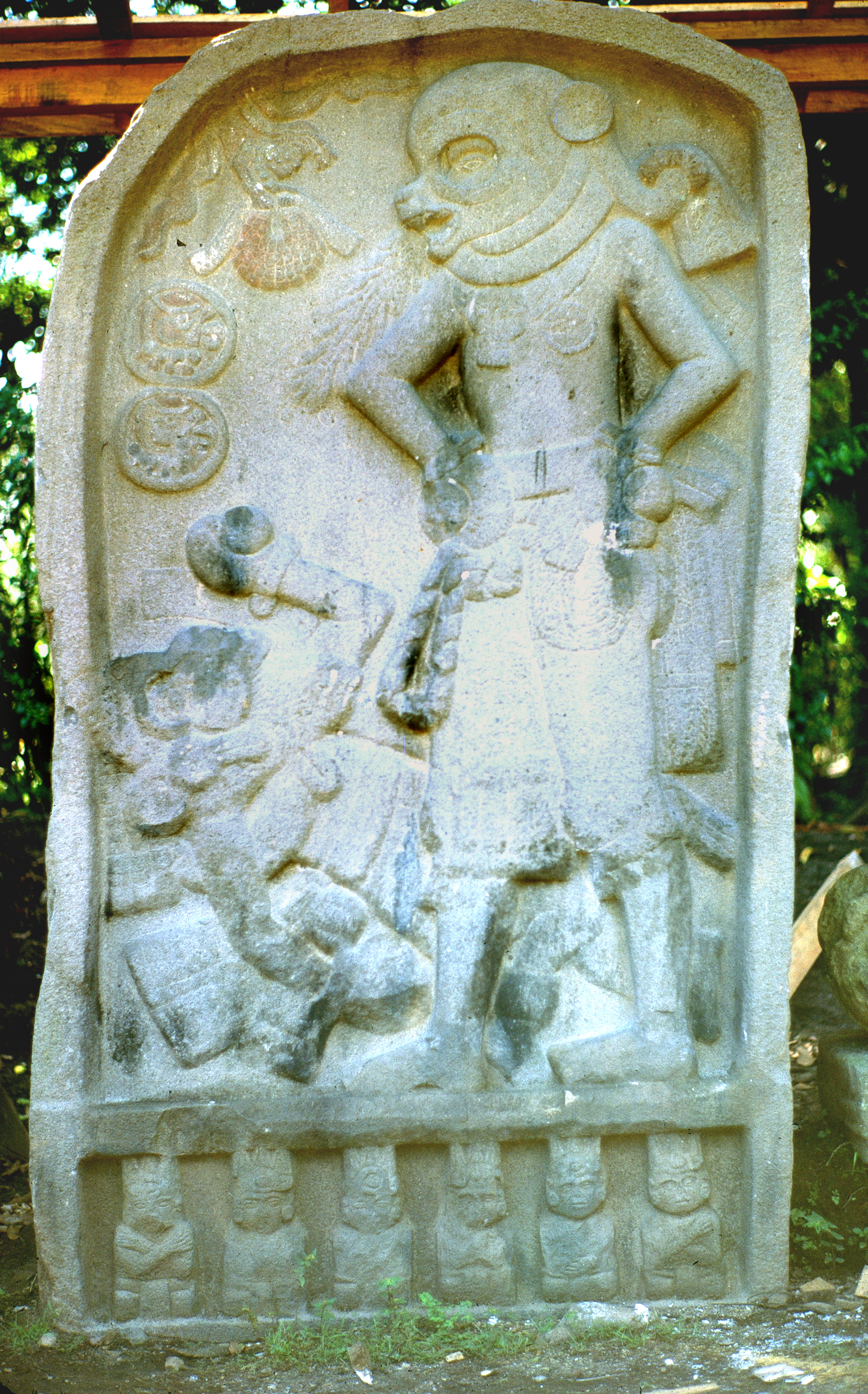 El Baúl, Cotzumalguapa, Guatemala